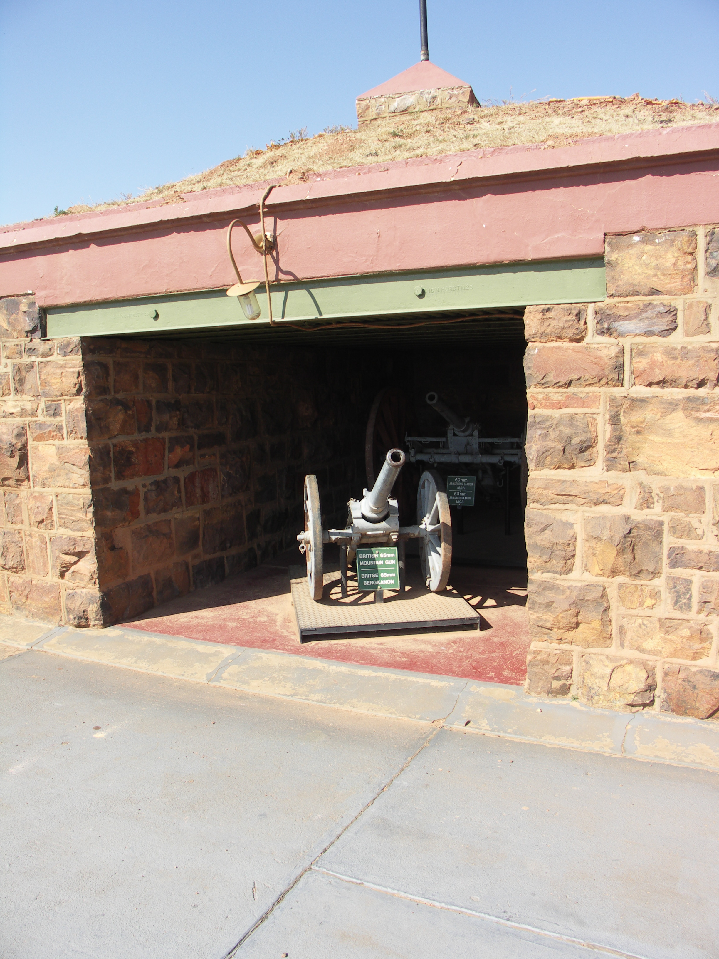 RML 2.5 inch Mountain Gun at Fort Klapperkop outside Pretoria